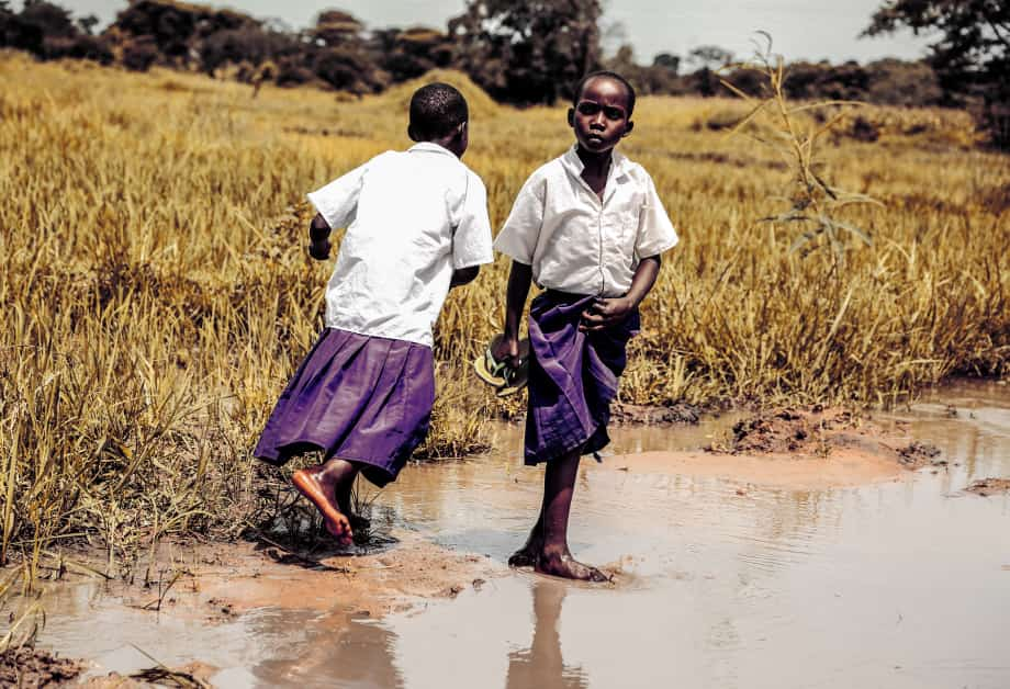 Two School Girls going home. This Photo taken in Sumbawanga, Tanzania This is an image with the theme "Play" from: Tanzania